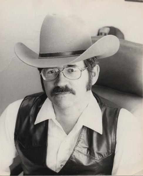 Picture of John Whitley